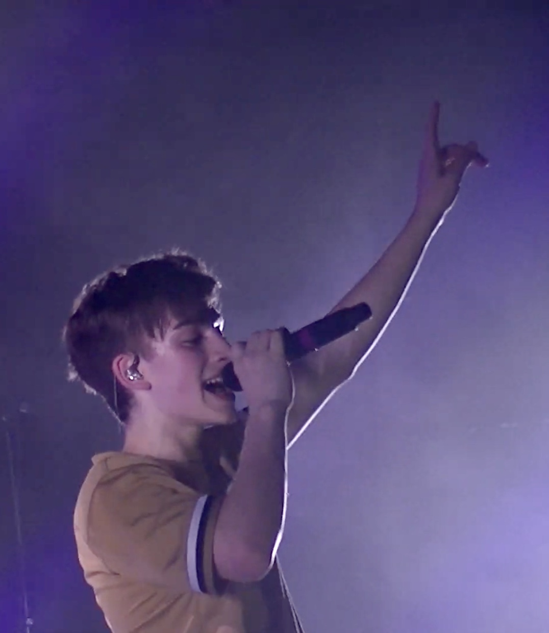 Johnny Orlando performing at Die Kantine in Cologne, Germany in 2019